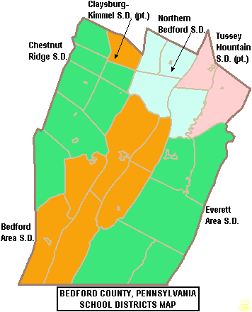 Map of Bedford County, Pennsylvania, United States Public School Districts